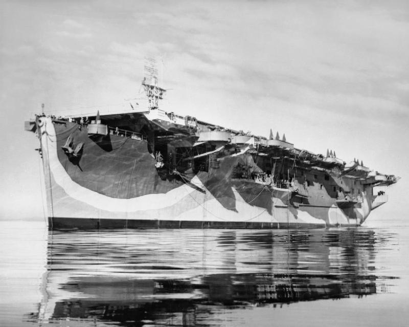 Half broadside view of British Bogue/Ameer class escort aircraft carrier HMS TRUMPETER, stationary in the Atlantic.